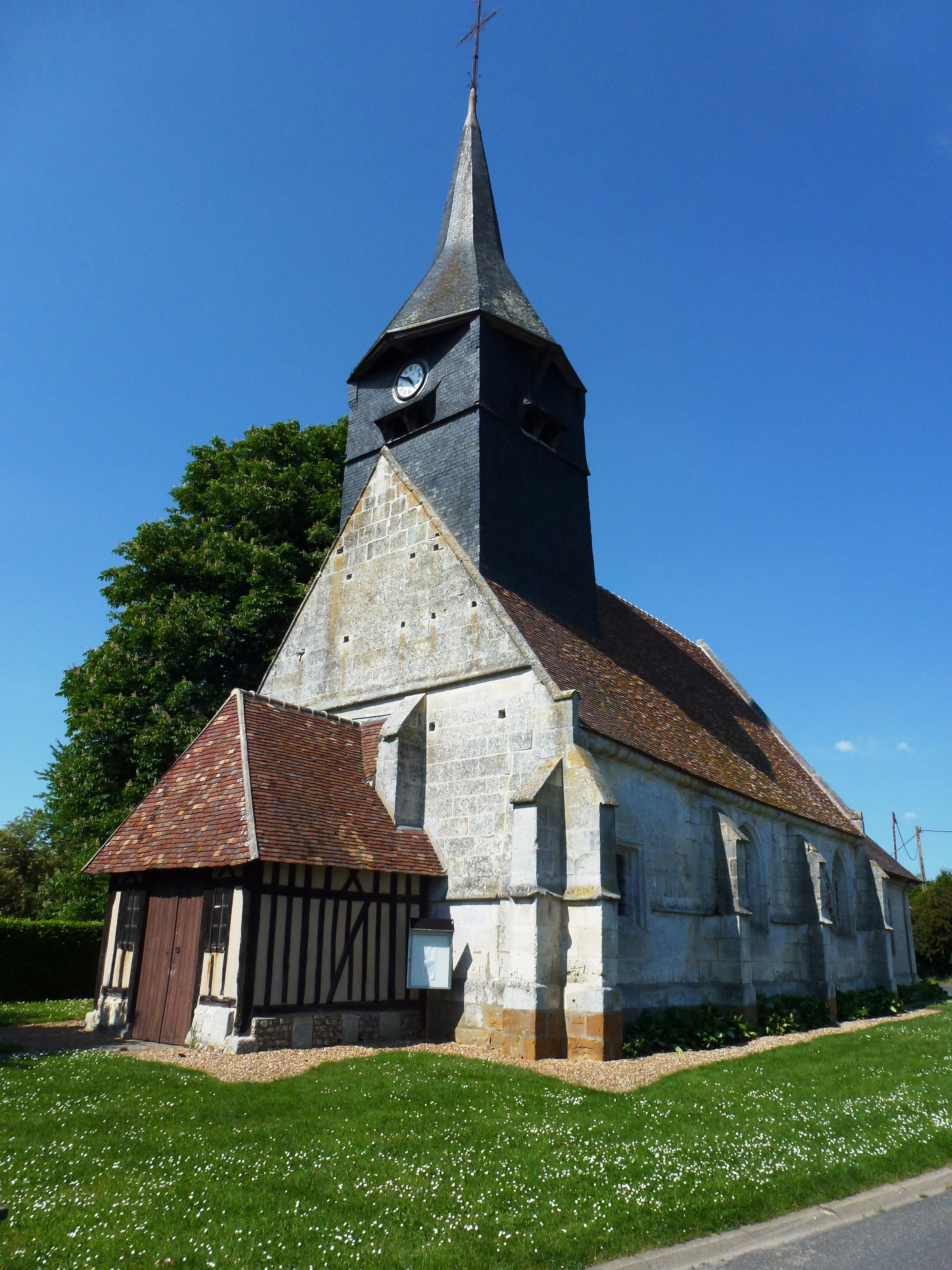 Tilleul-Dame-Agnès (Eure, Fr) église Saint-Martin